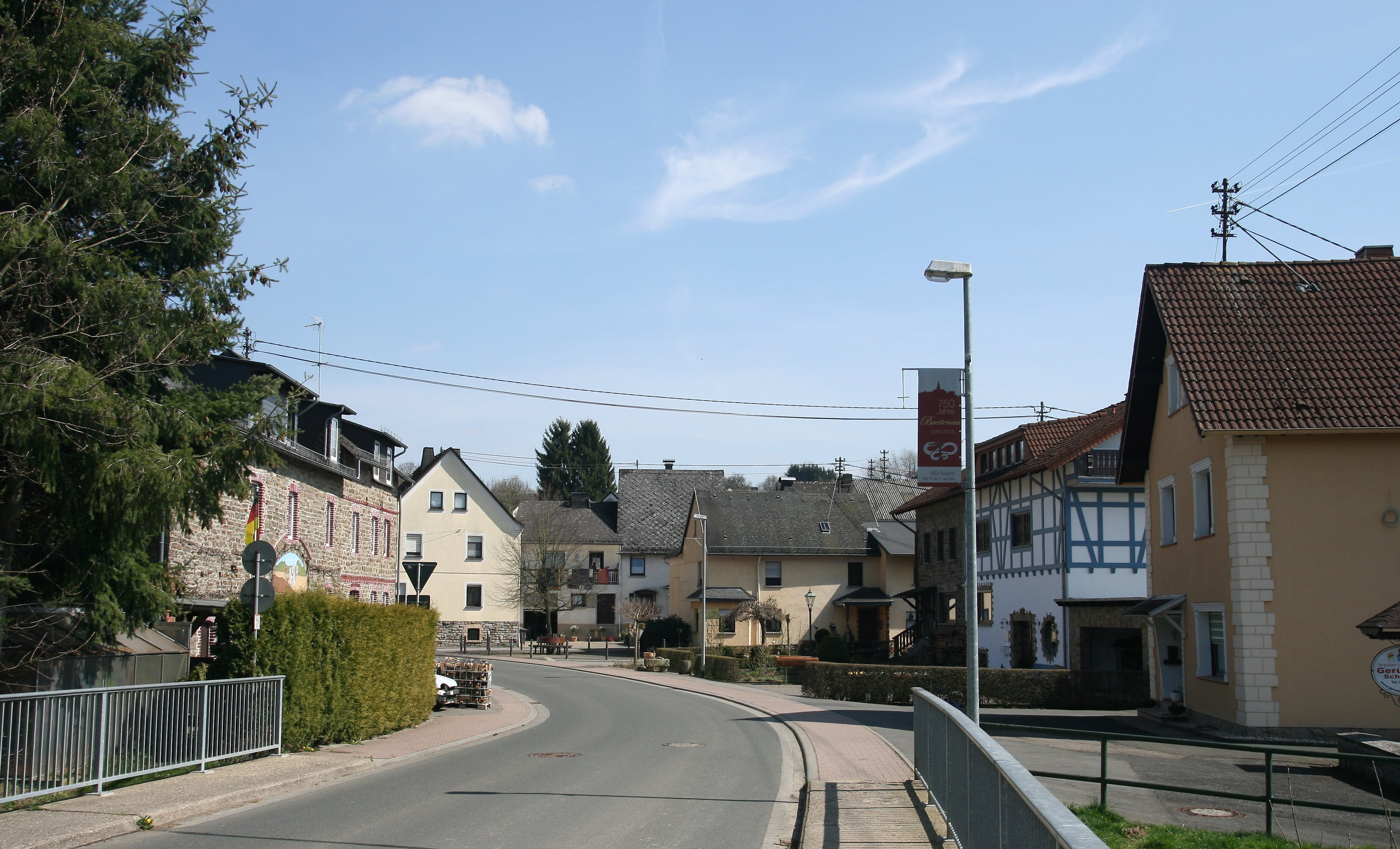 Village view in Breitenau, Westerwald, Germany. Taken from the Hauptstraße bridge crossing Saynbach river